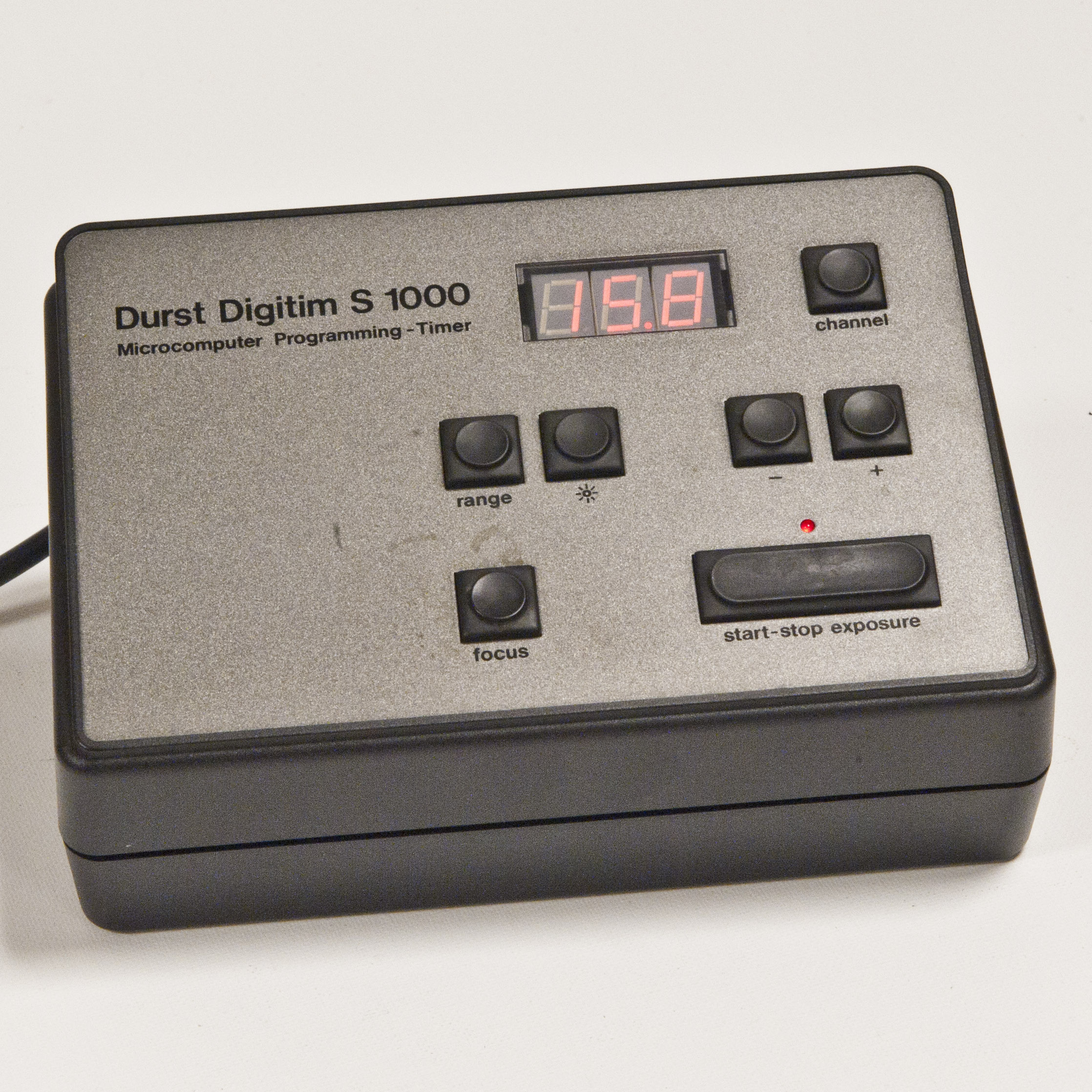 Timer for photo processing/image magnification Digitim S 1000, manufactured by DURST around 1985 Microcomputer programming timer